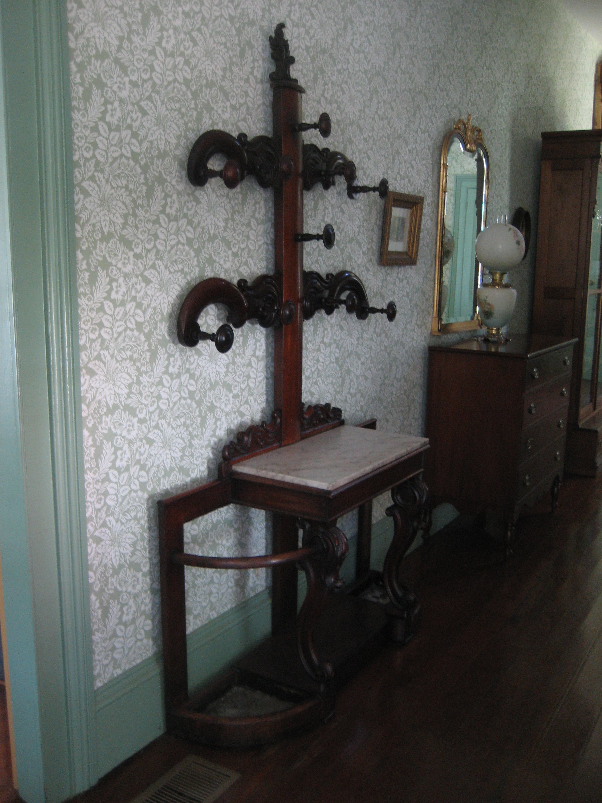 Interior of Clara Barkley Dorr House museum, Pensacola, Florida. Front hallway hat tree.